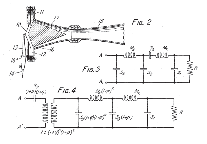 A mechanical filter designed using electrical network theory